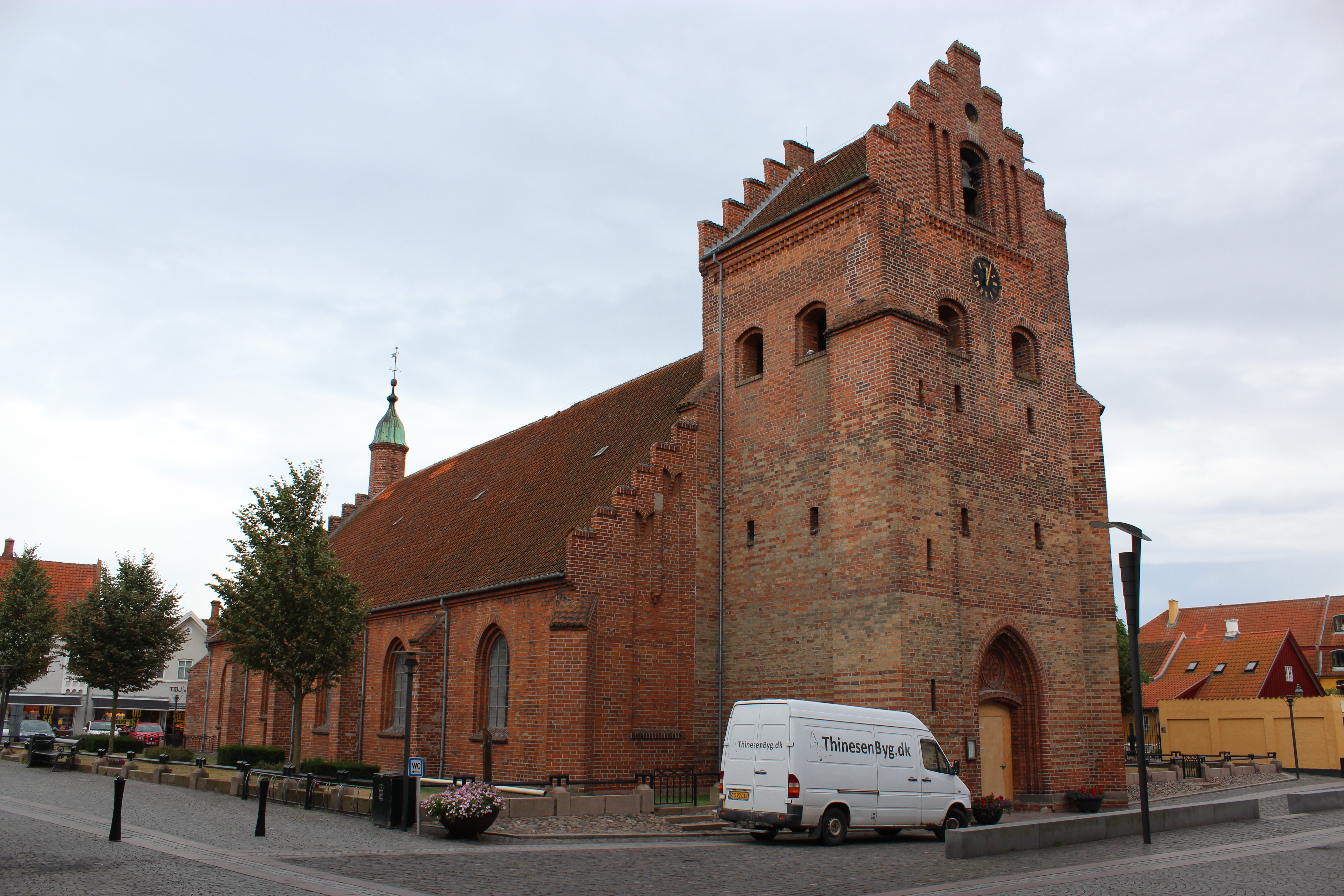 Saint Laurenti Church in Kerteminde on Funen